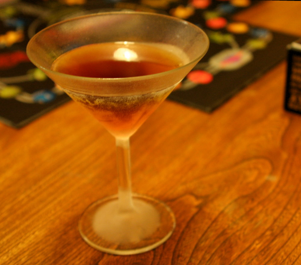 From the Savoy Cocktail Book. "One of the very best Whisky Cocktails. A very fast mover on Saint Andrew's Day".